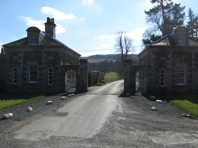 Impressive entrance to Kailzie Gardens — near Peebles, in the Scottish Borders.